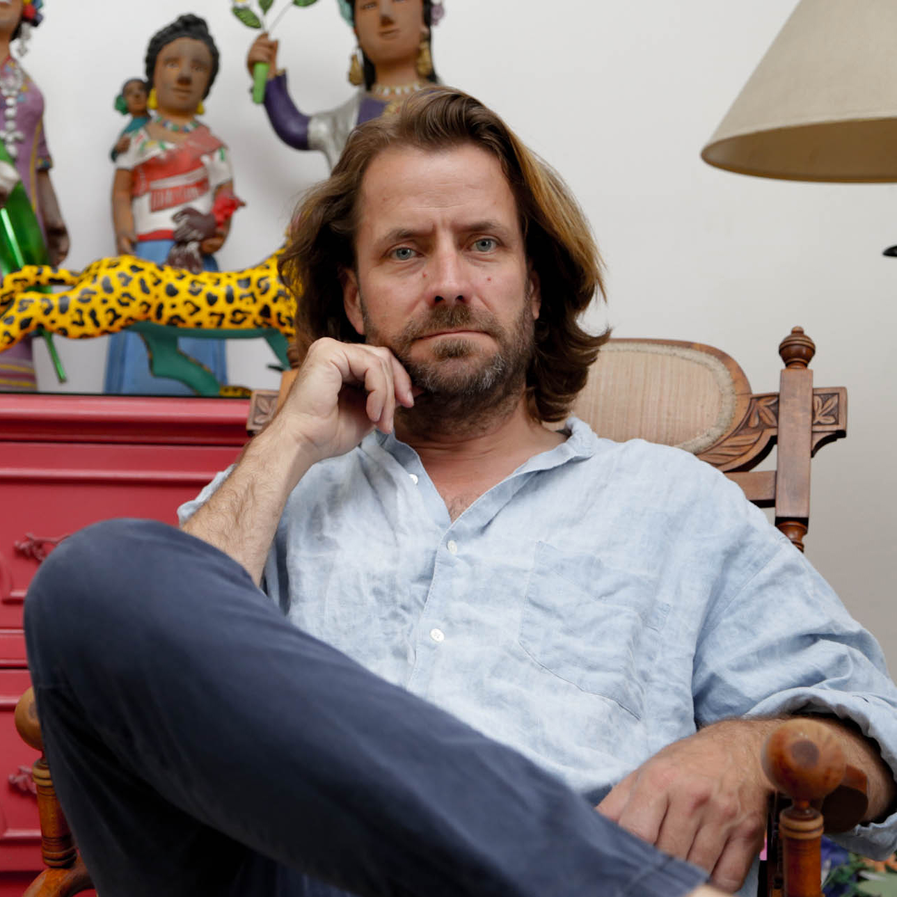 Lucien Castaing-Taylor on a visit to Mexico for promotion of his film "Leviathan" in 2013. Picture by Karloz Byrnison / Ambulante Festival.